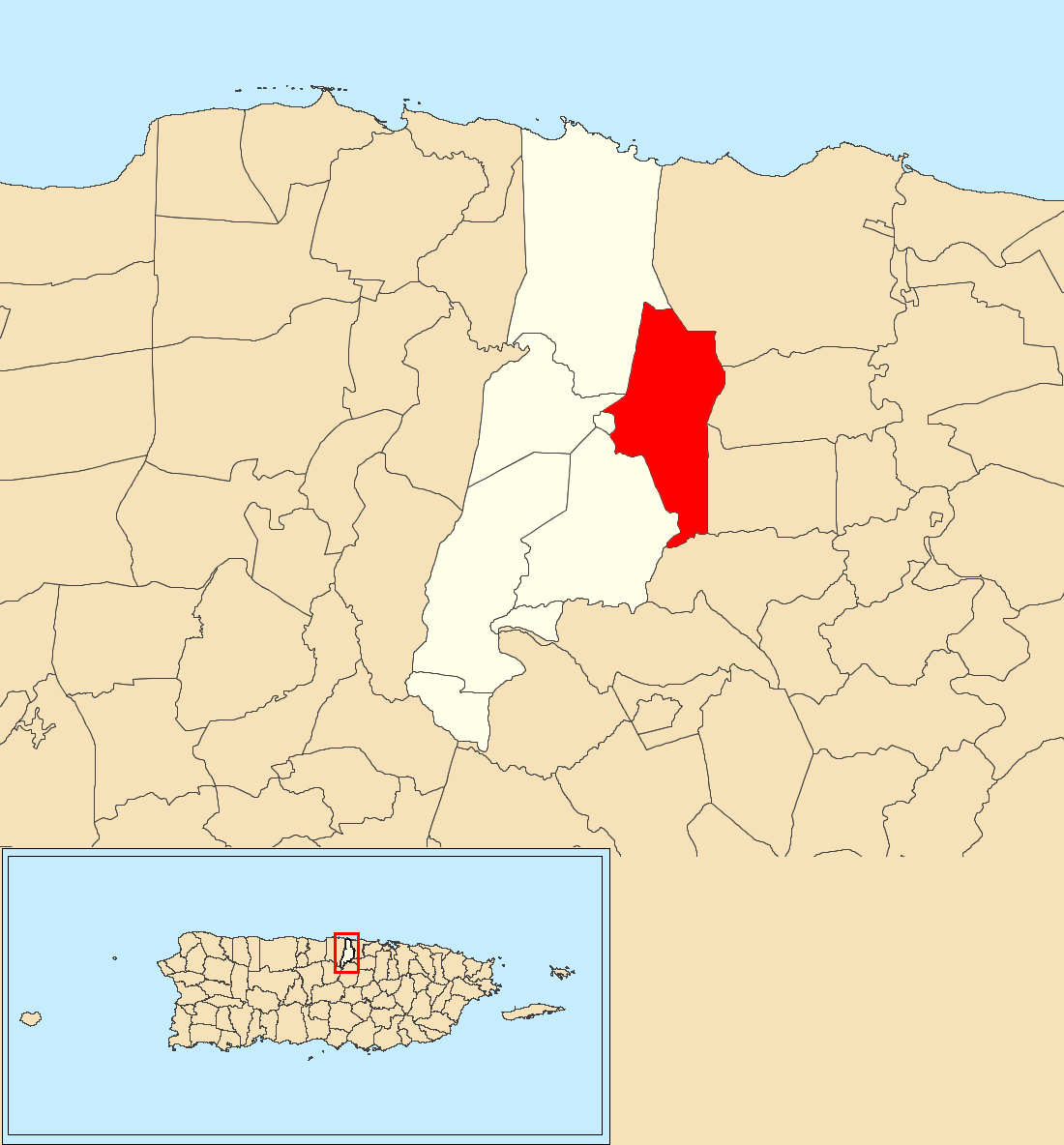 Espinosa, Vega Alta, Puerto Rico locator map